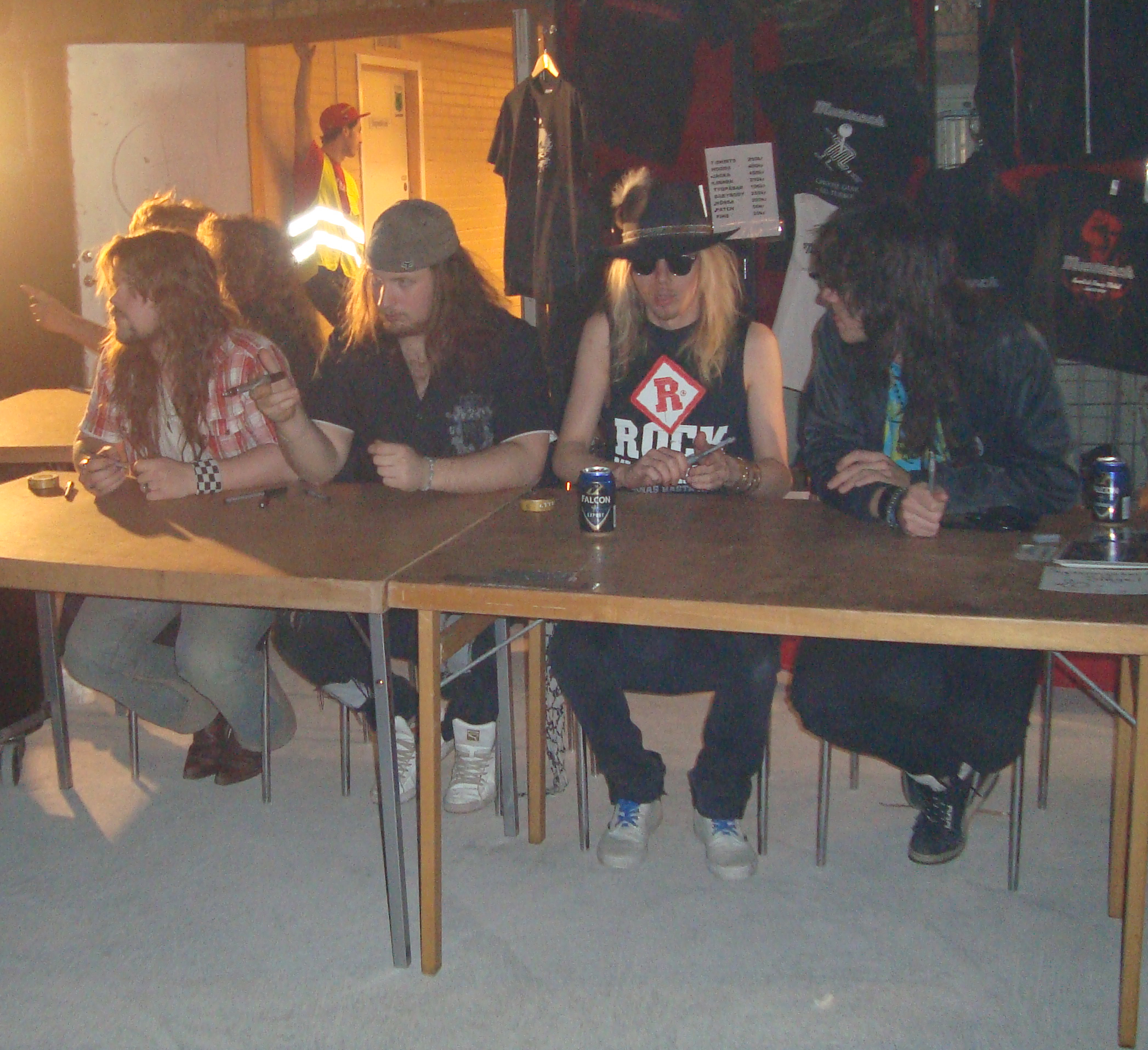 H.E.A.T on Rockweekend on tour, Gärdeshov, Sundsvall, Sweden